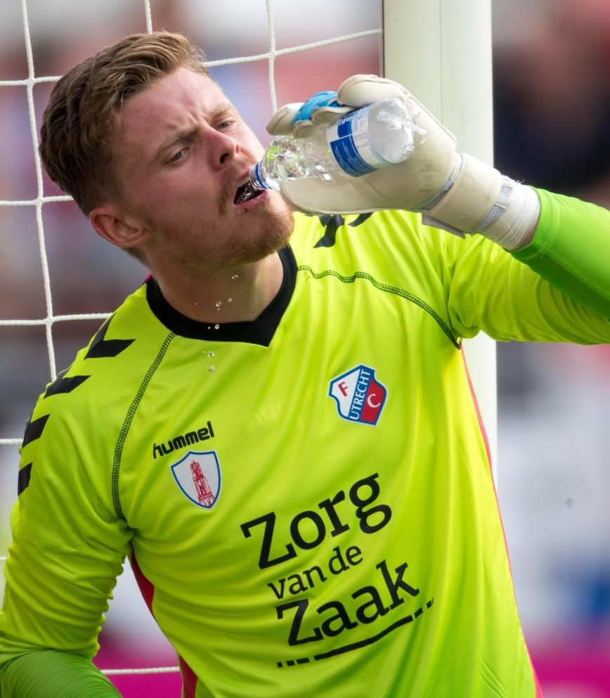 16.08.2017. Нидерланды, Утрехт, стадион «Галгенвард». Лига Европы УЕФА 2017/2018, 4-й квалификационный раунд, «Утрехт» — Зенит».